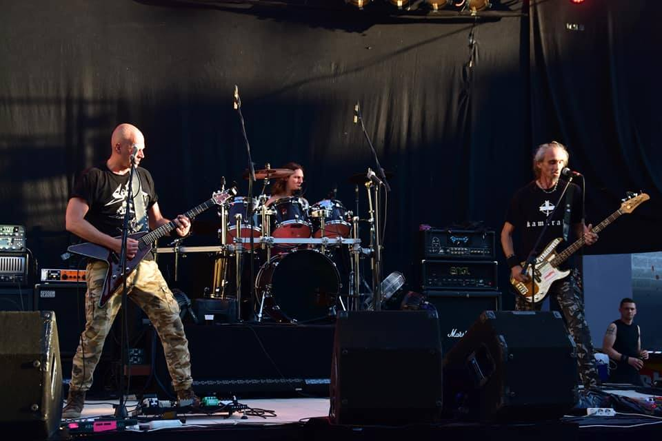 Kamäradi, old school heavy metal bend from Zagreb, Croatia